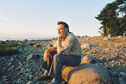 Russian wrighter Grigoriy Demidovtsev